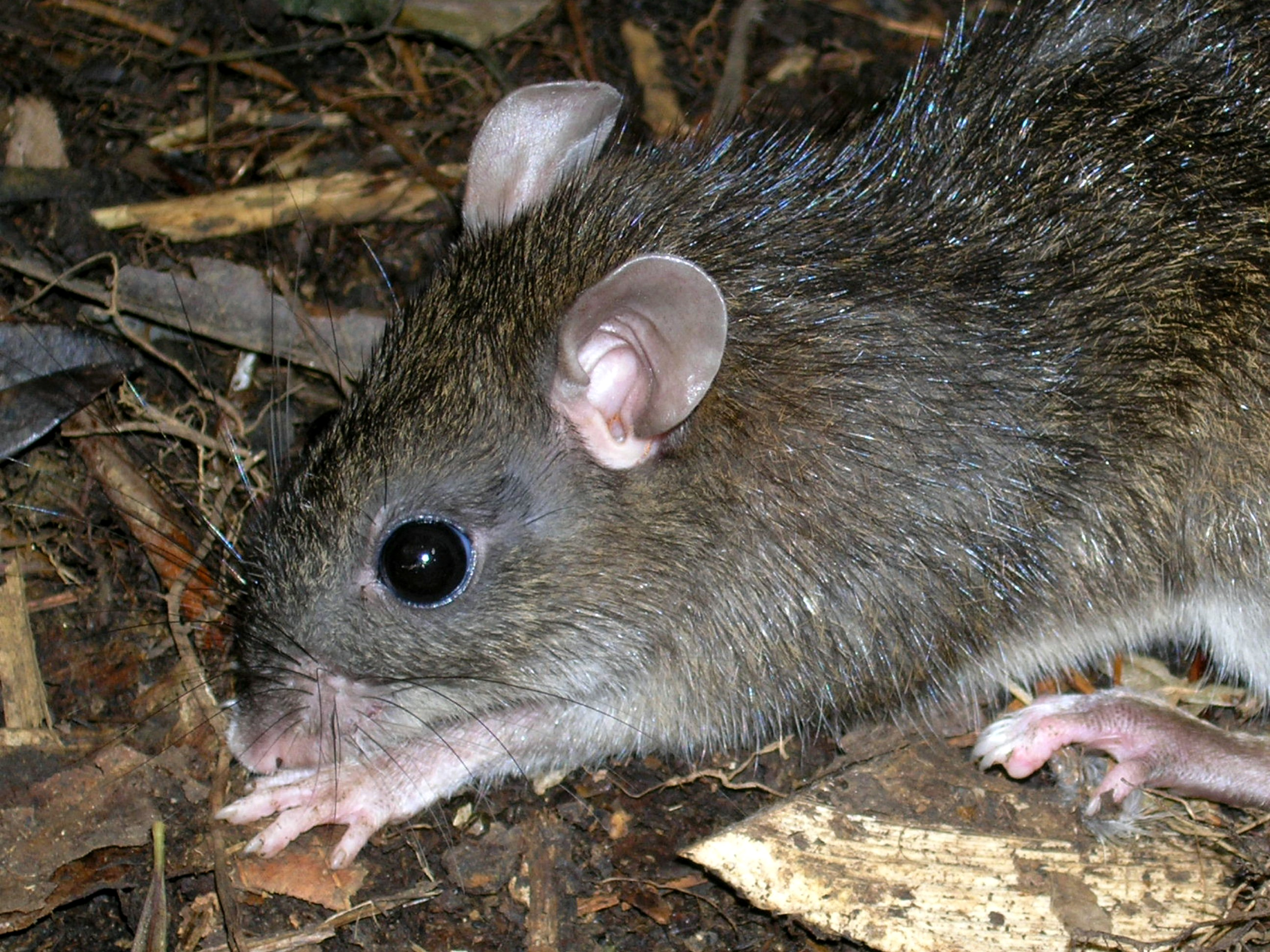 Large mindanao forest rat (Apomys gracilirostris?)